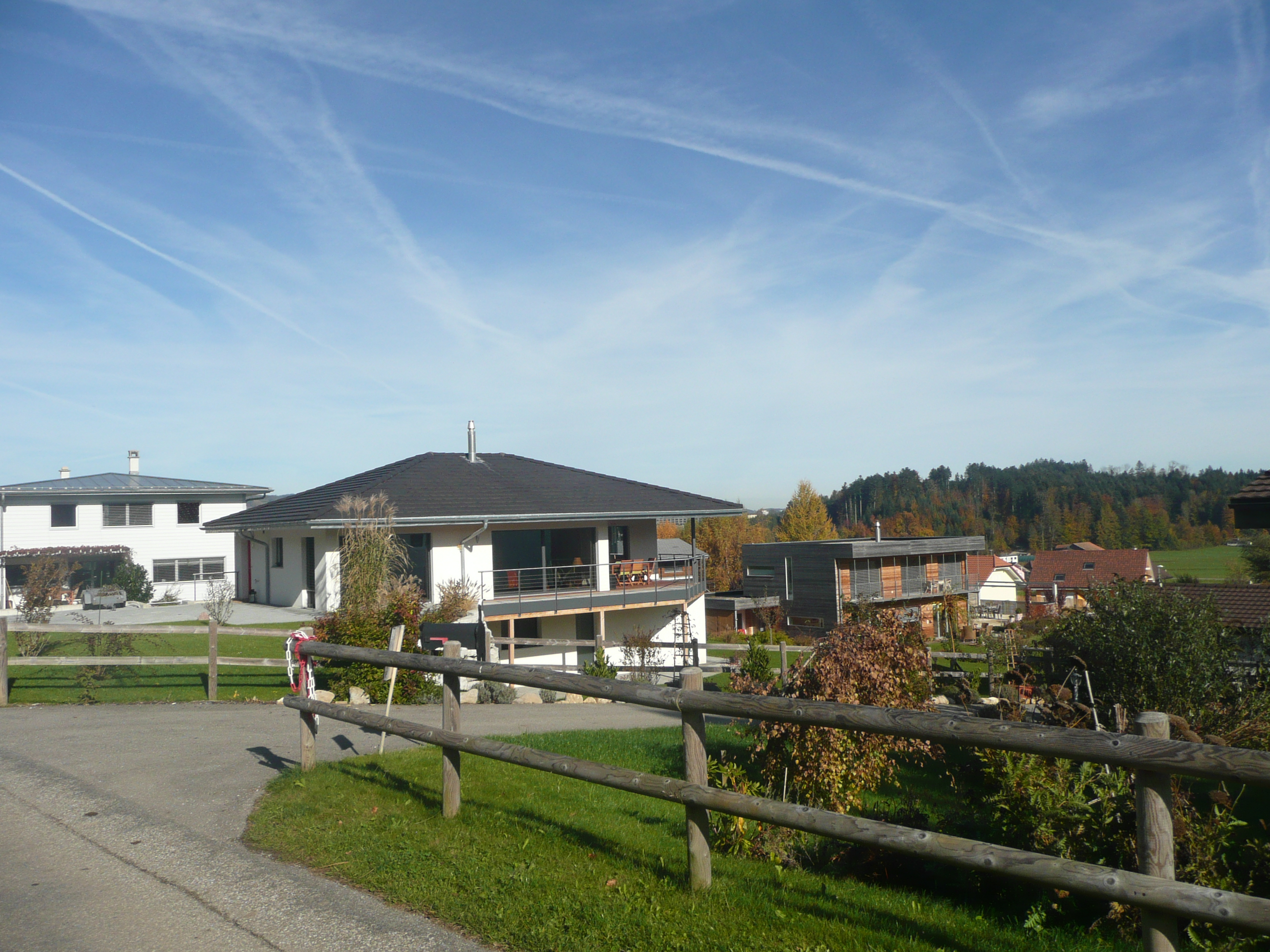 Le Pâquier-Montbarry (Le Pâquier (Fribourg)) (autumn)